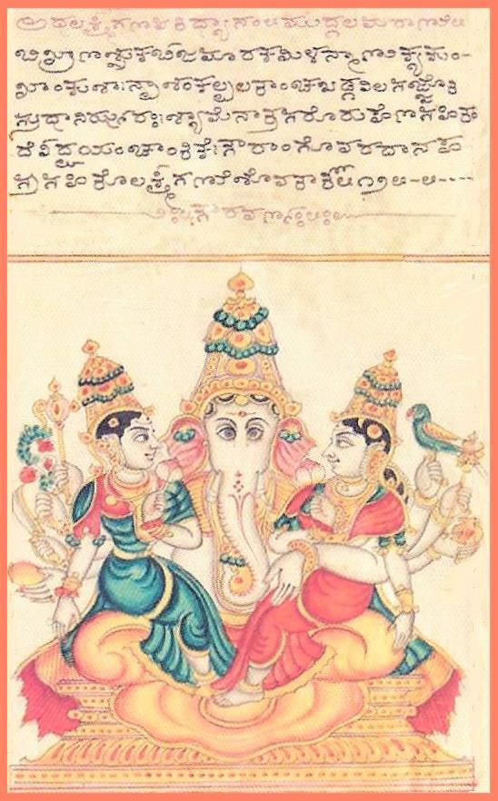 Reproduction from the Śrītattvanidhi ("The Illustrious Treasure of Realities"), an iconographic treatise compiled in the 19th century in Karnataka, India, by order of the then Maharaja of Mysore, Krishnaraja Wodeyar III (b. 1794 - d. 1868).